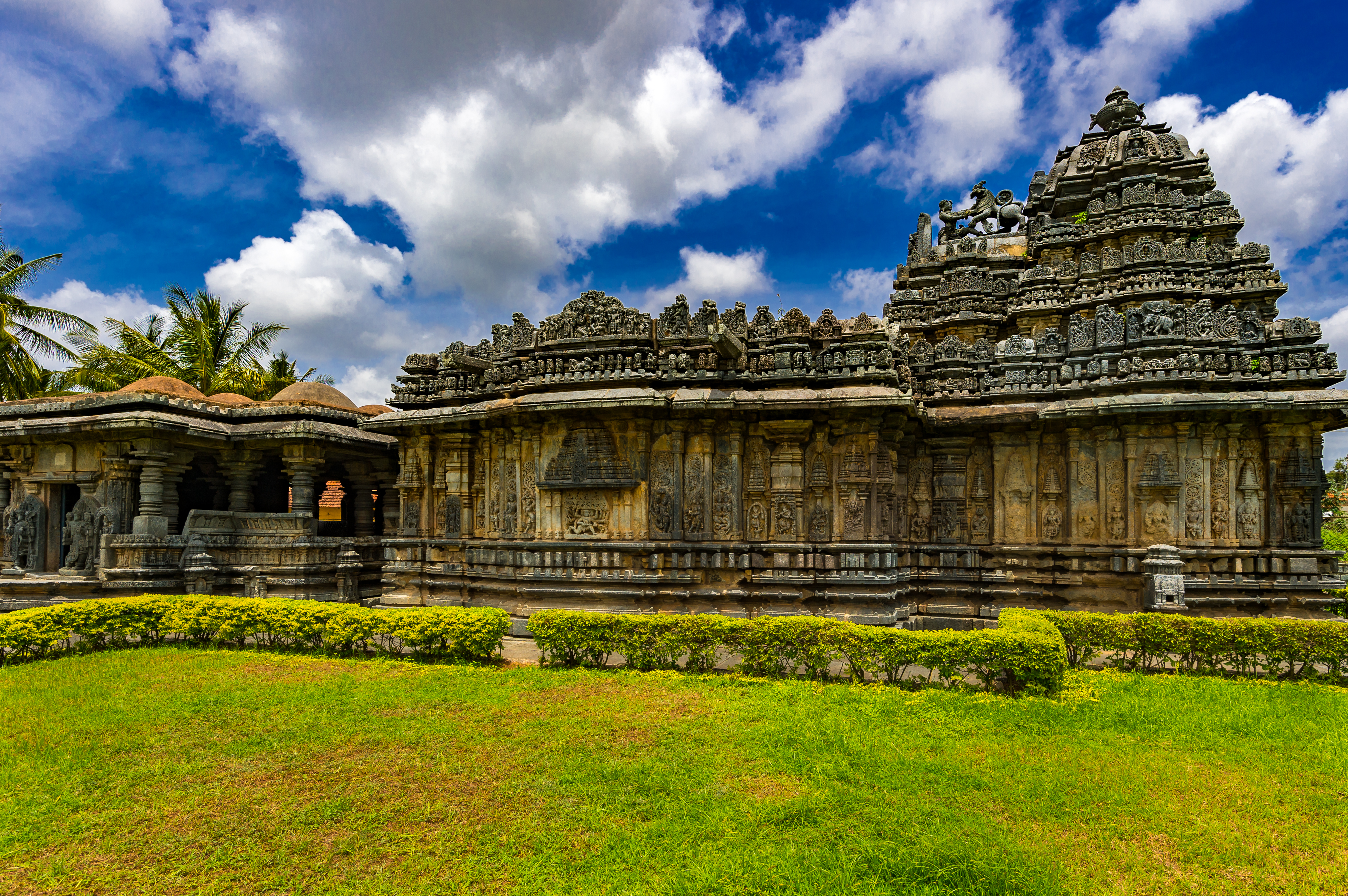 Hoysala Architechtures